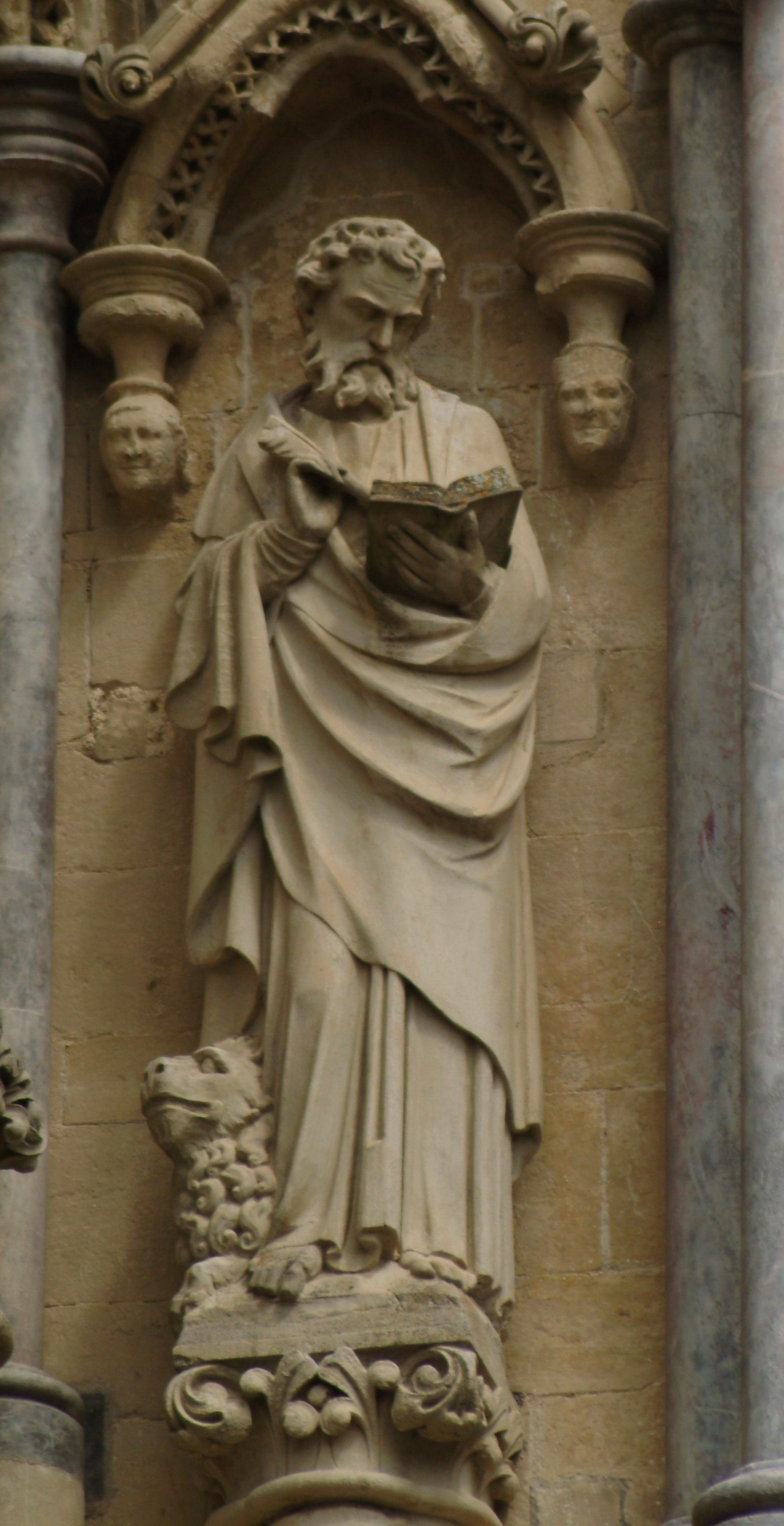 Statue of St Mark the Evangelist on the West Front of Salisbury Cathedral, UK.